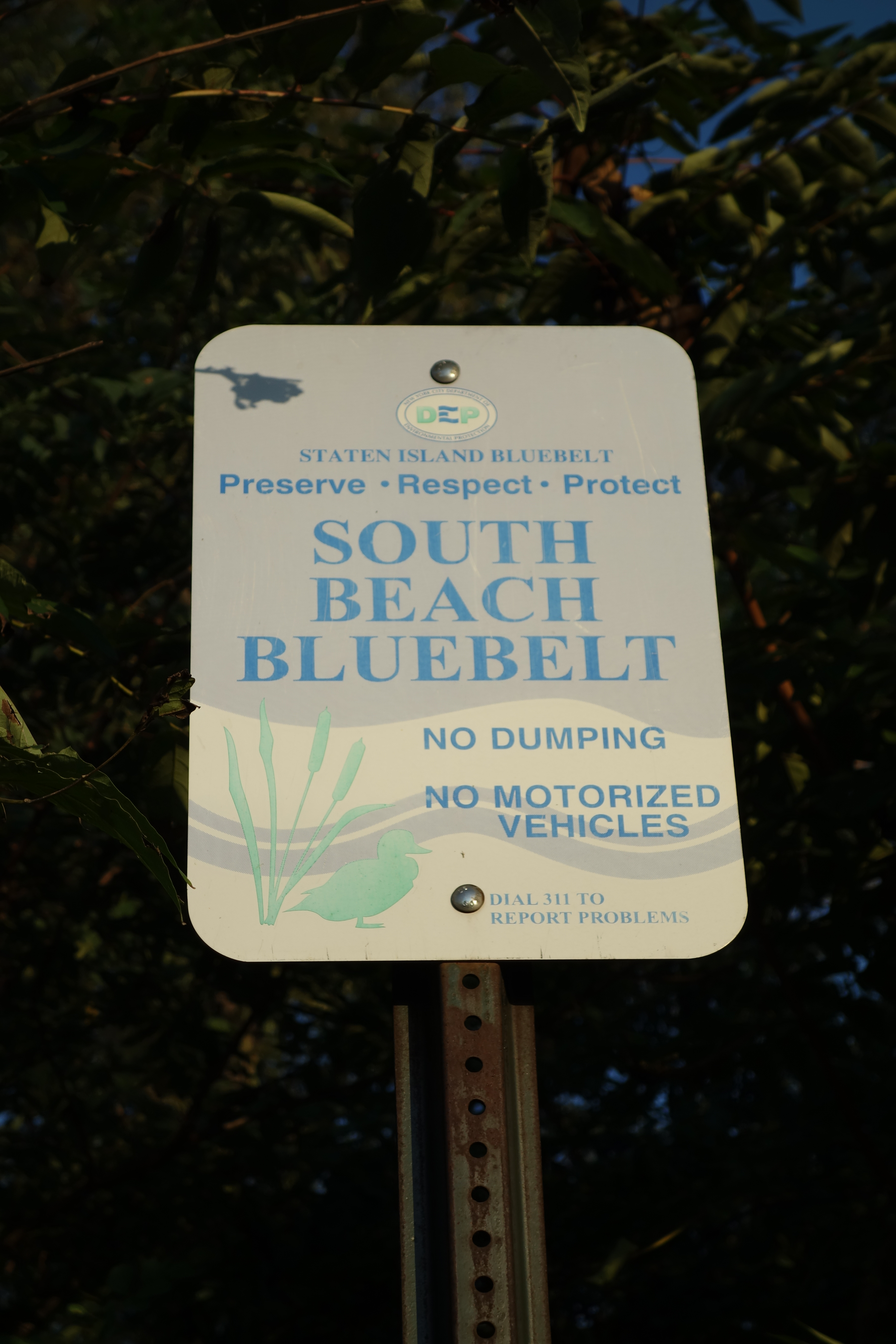 Looking north at the South Beach Wetlands from Father Capodanno Boulevard, between Sand Lane to the east and Quintard Street to the west in South Beach, Staten Island. Pictured is a sign for the NYCDEP's Staten Island Bluebelt, a natural storm water system.